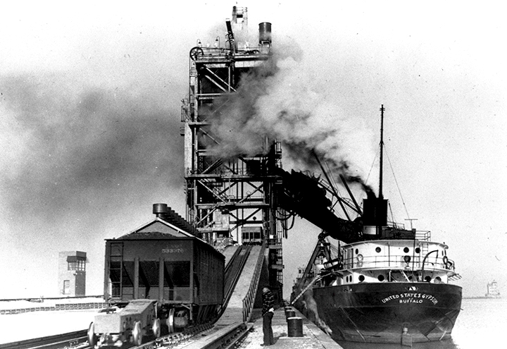 Boats were used to haul coal